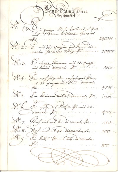 inventory of jewels owned by Maria Amalia of Austria, 1722; Austrian State Archives, Vienna, Signatur: HHStA Familienurkunden Nr. 1882